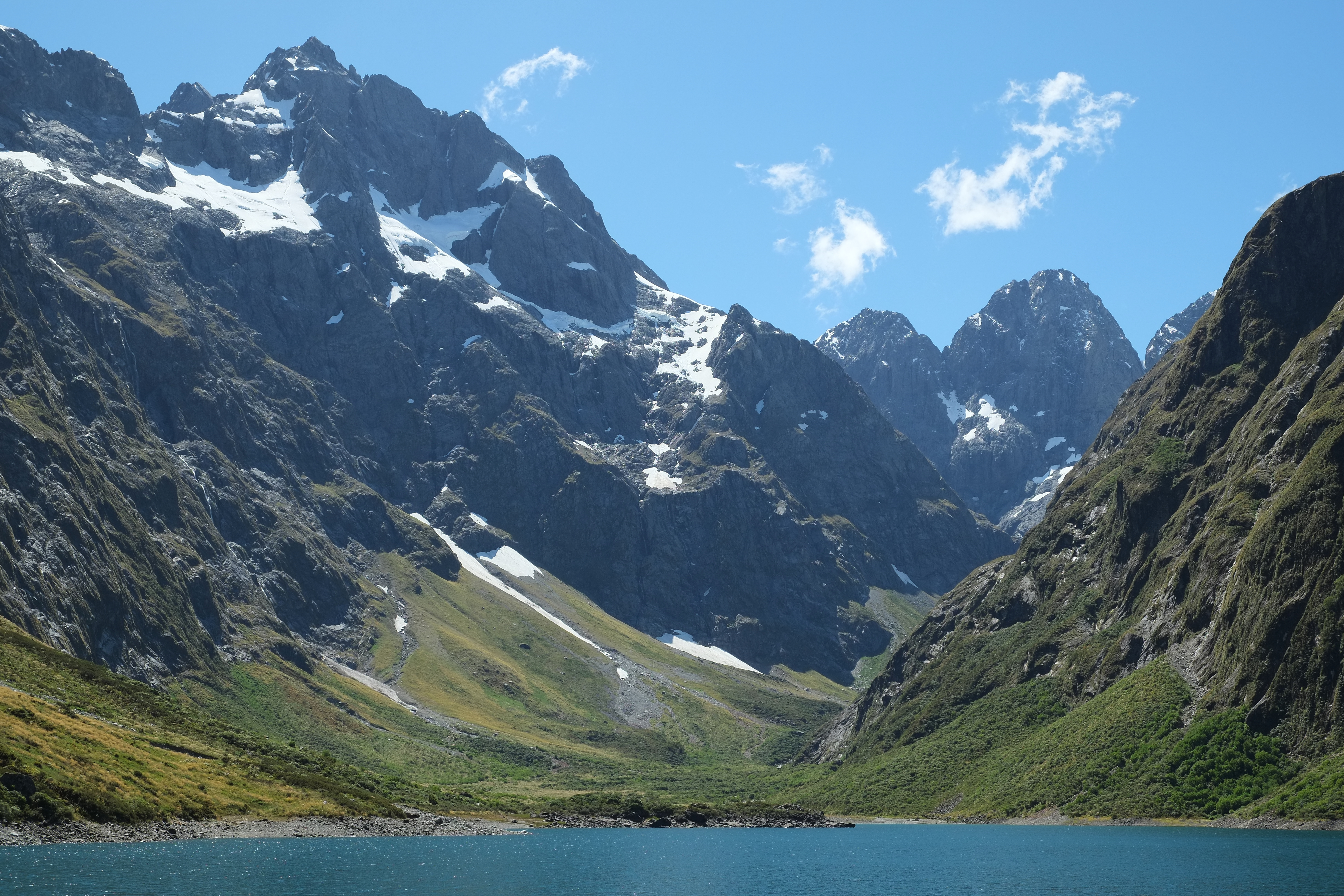 Mount Crosscut behind Lake Marian